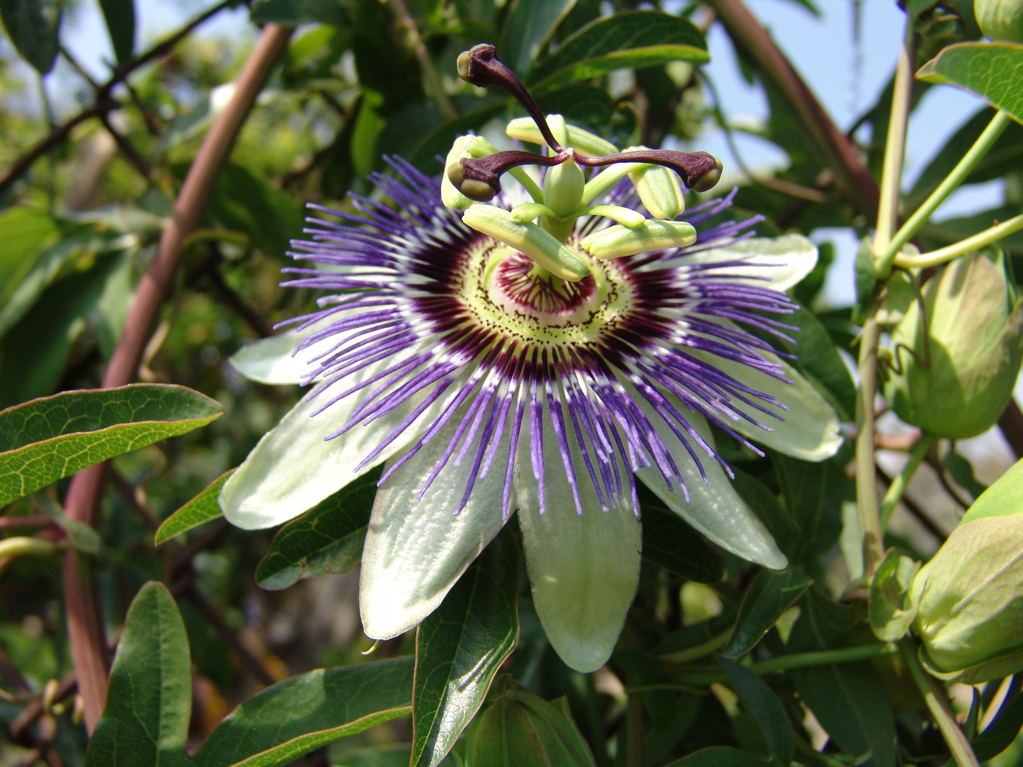 South Central Farm in the city of Los Angeles California. The 14 acres located at 41st and Alameda St. is one of the largest urban gardens in the United States.